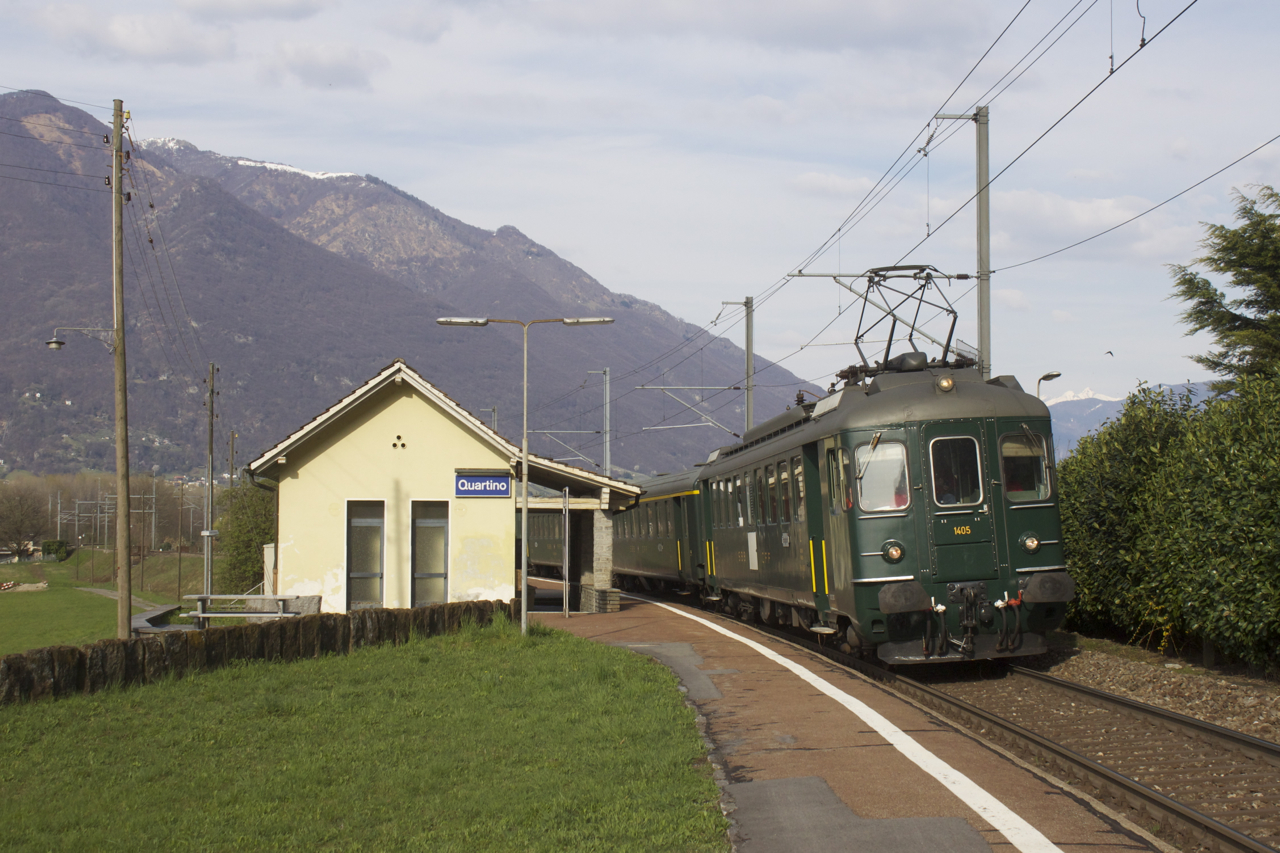 RBe 4/4 1405 of Depot und Schienenfahrzeuge Koblenz at Quartino.